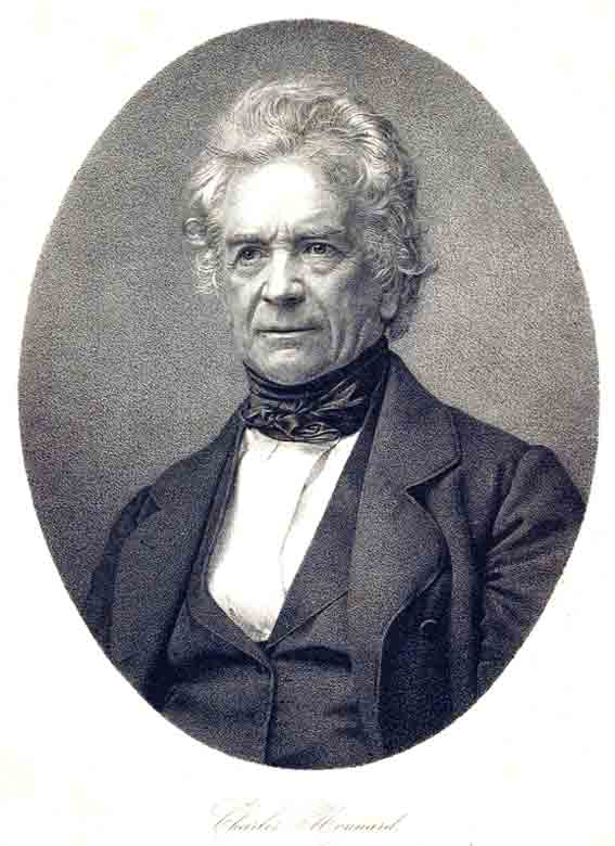 Charles Monnard, Polititian and Theologian from Switzerland